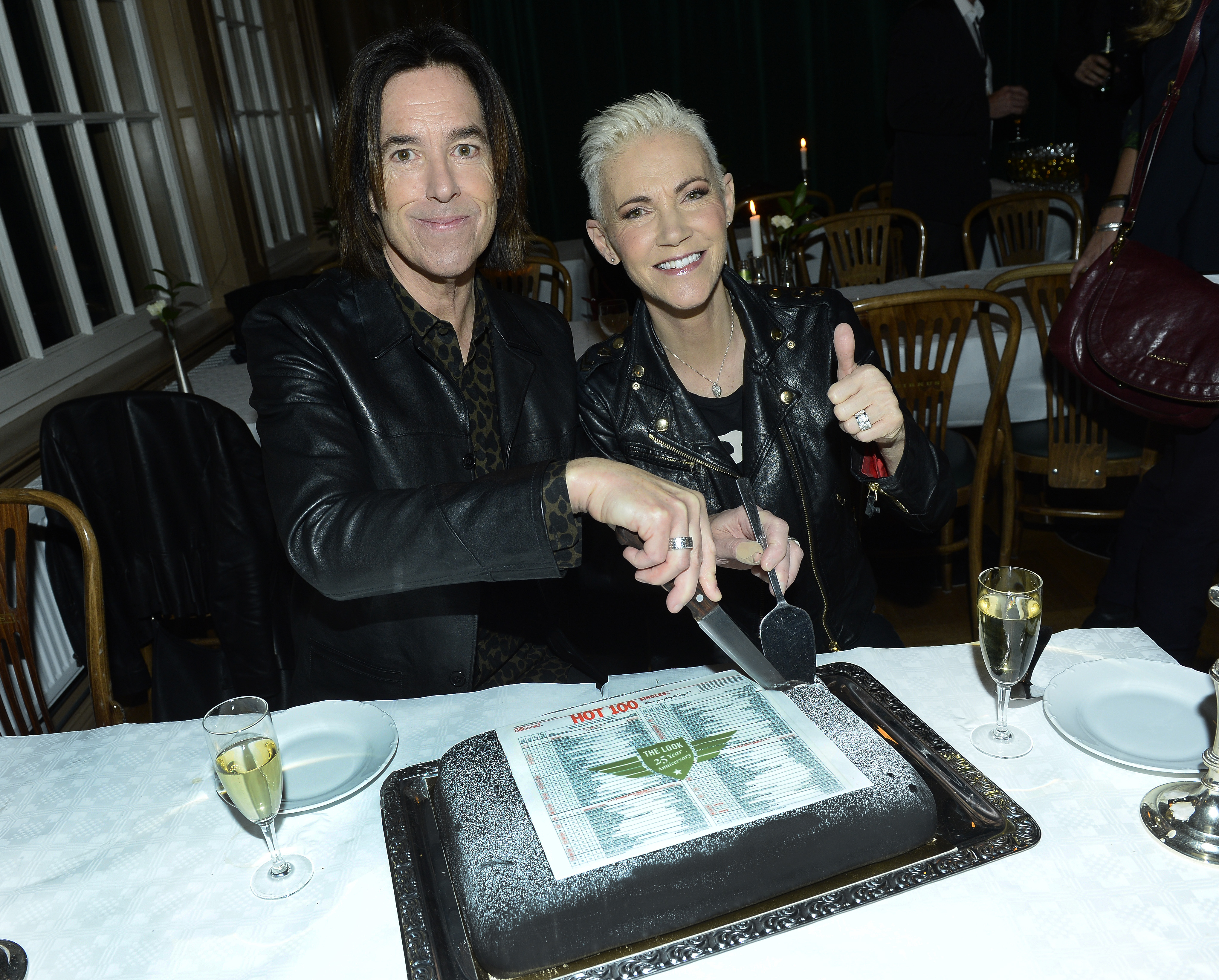 Roxette (Marie Fredriksson and Per Gessle) celebrate the 25th anniversary of their single "The Look" reaching the top spot on the Billboard Hot 100.